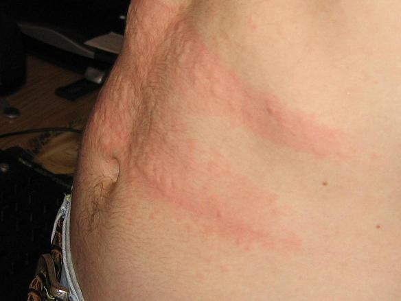 This is a picture of urticaria pigmentosa. The skin has been irritated and the resulting hives are shown.